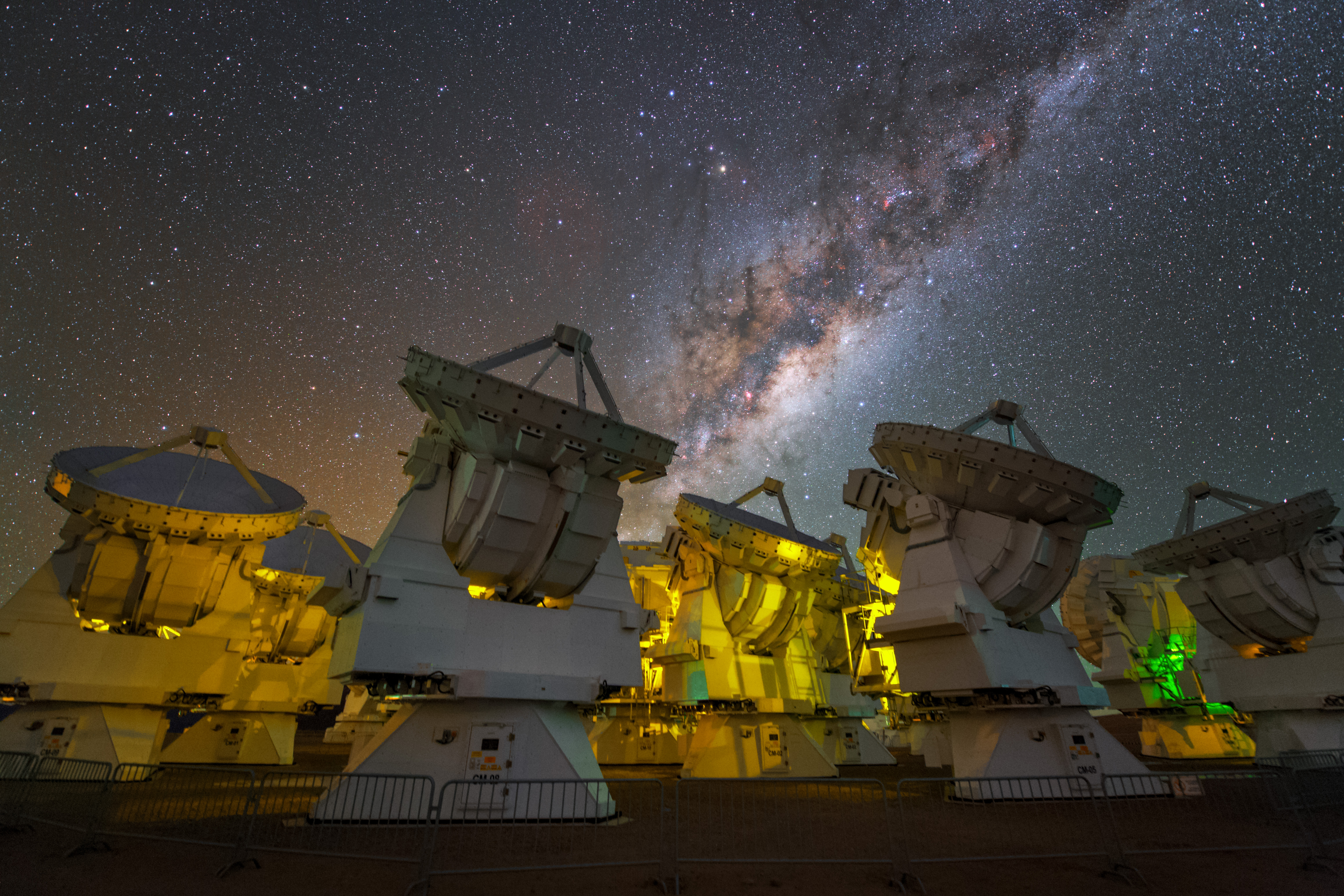 The stunning Milky Way above the antennas at the ALMA Observatory.